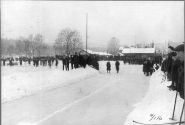 Opening of the speed skating rink at Kadettangen in Bærum, Norway